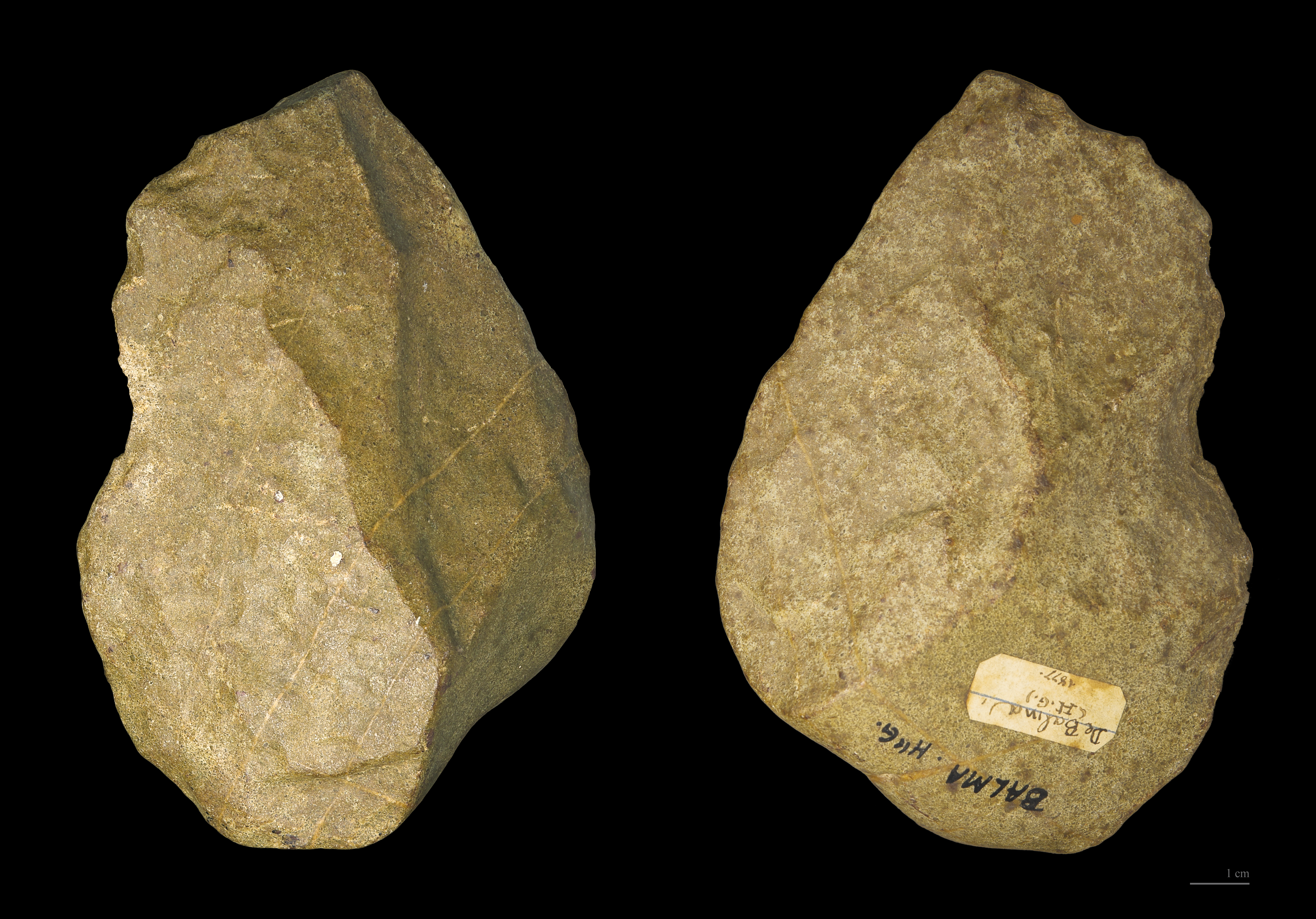 Chopper – Different views of the same specimen. Stage: Lower Paleolithic between -1 Ma and -300000 BP. Locality: Balma, Haute Garonne, France. Size: 13.3 x 9.2 x 4.6 cm